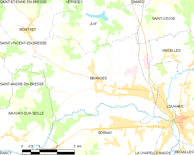 Map of French municipality